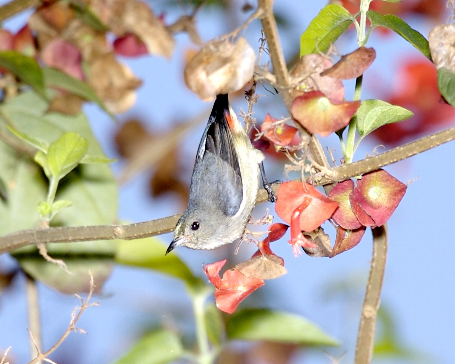 Blood-breasted Flowerpecker (Dicaeum sanguinolentum) Location: Cibodas, Java, Indonesia 27th. August 2006